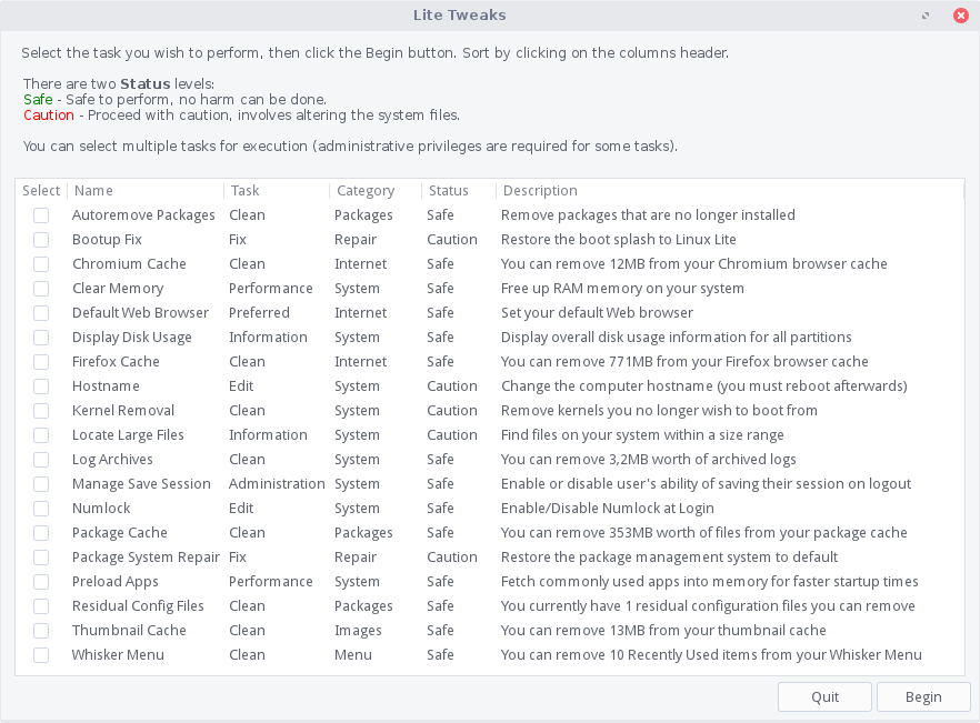 The program "Tweaks" of Linux Lite 3.2.